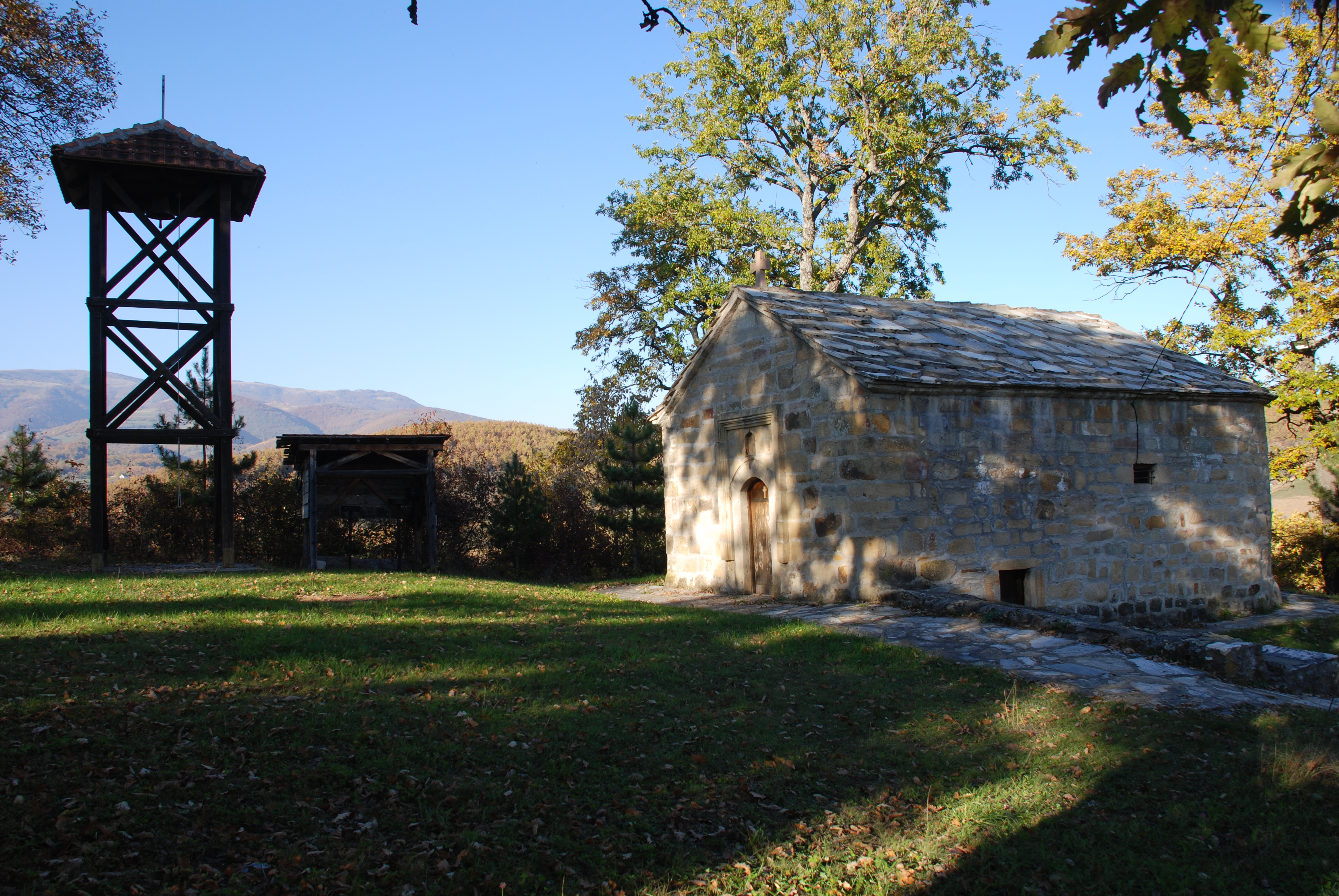 Church of Saint Mary, mother of Jesus in Kovačevo, Novi Pazar